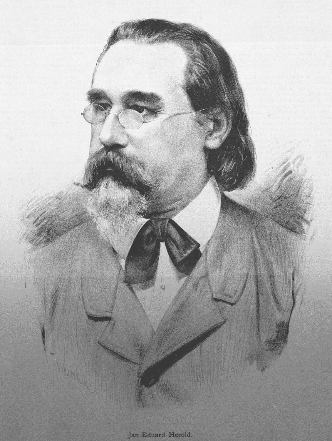 Portrait of (Jan) Eduard Herold (1820–1895), Czech painter.